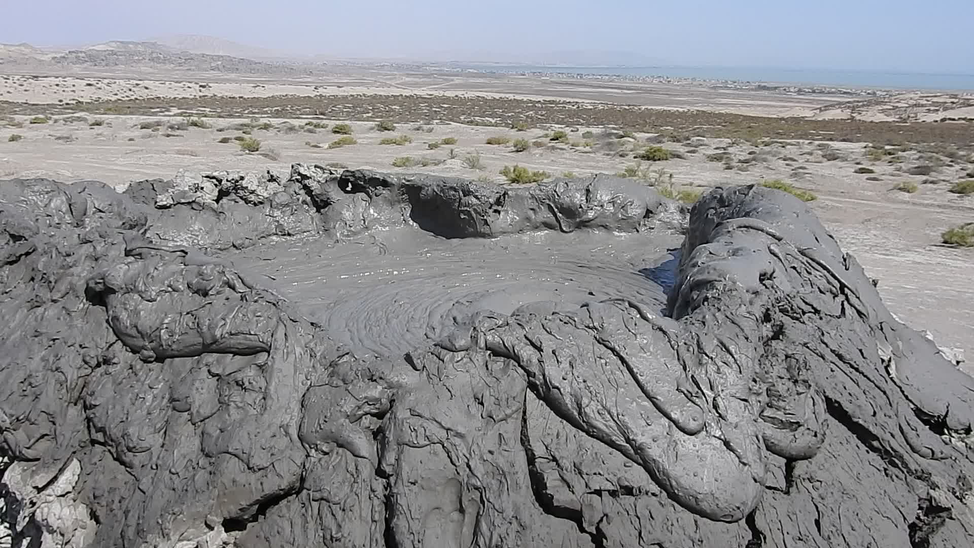 Video- A true wonder of Mother Nature- here is a mud volcano. Sea water (the Caspian Sea is just on the horizon) with subterranean gas make these mud volcano bubble away. The ones with more water are generally safe but the ones with very little water like this one here have been known to erupt without warning. Some locals collect the mud for cosmetic purposes. Sea water and subterranean gas is what makes these mud volcanoes come alive. (Note to my viewers on Facebook: some of you might have seen this video earlier as I had posted it on Instagram as well. In this album, the video seems to have disappeared completely although it did upload correctly. Fortunately however, unlike to all the other videos in this album which seem to have disapeared, this video is still on Facebook, sitting in the 'Videos' album.) (Gobustan, Azerbaijan, Sept. 2017)